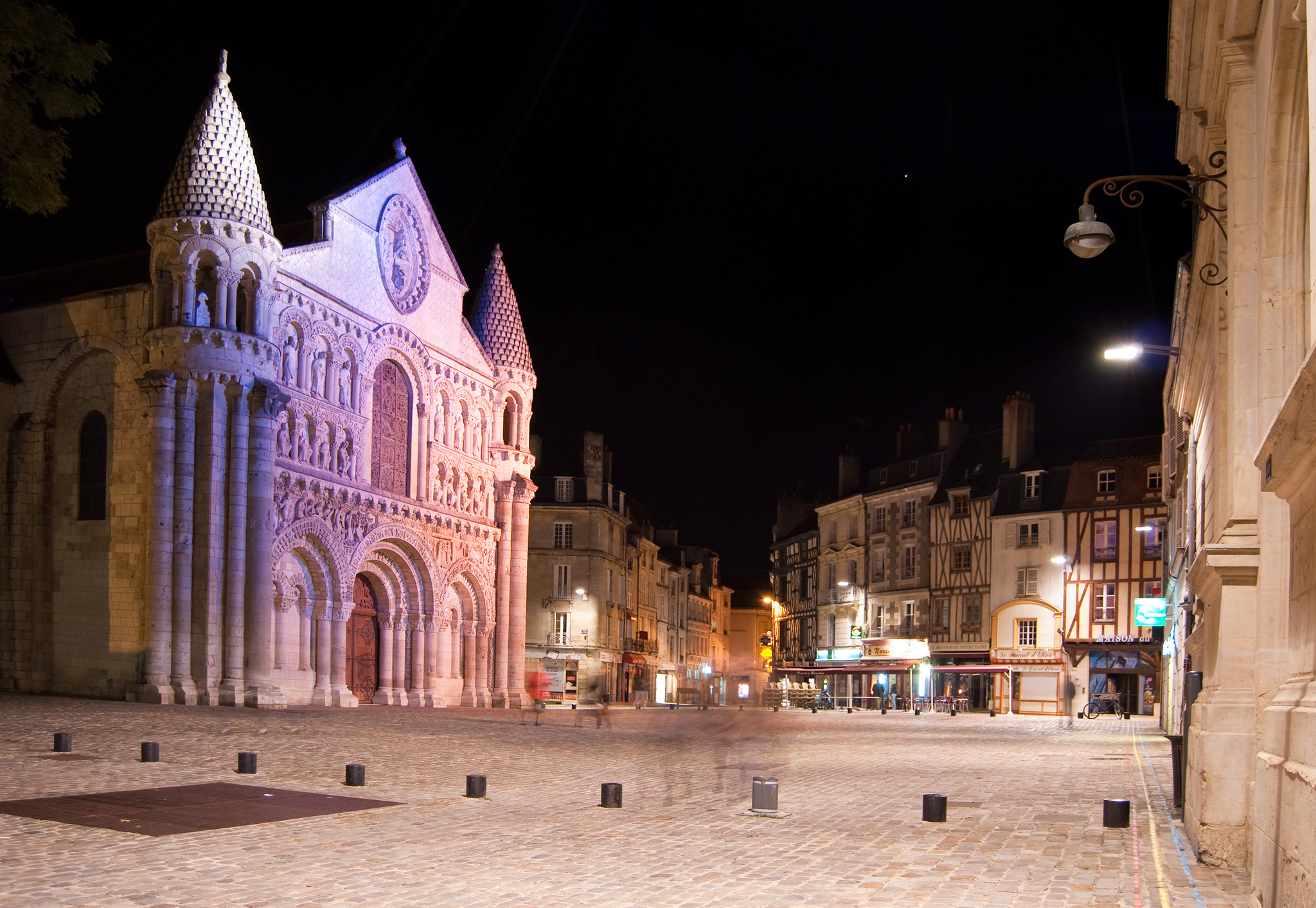 Photograph of Notre-Dame la Grande in Poitiers by night.